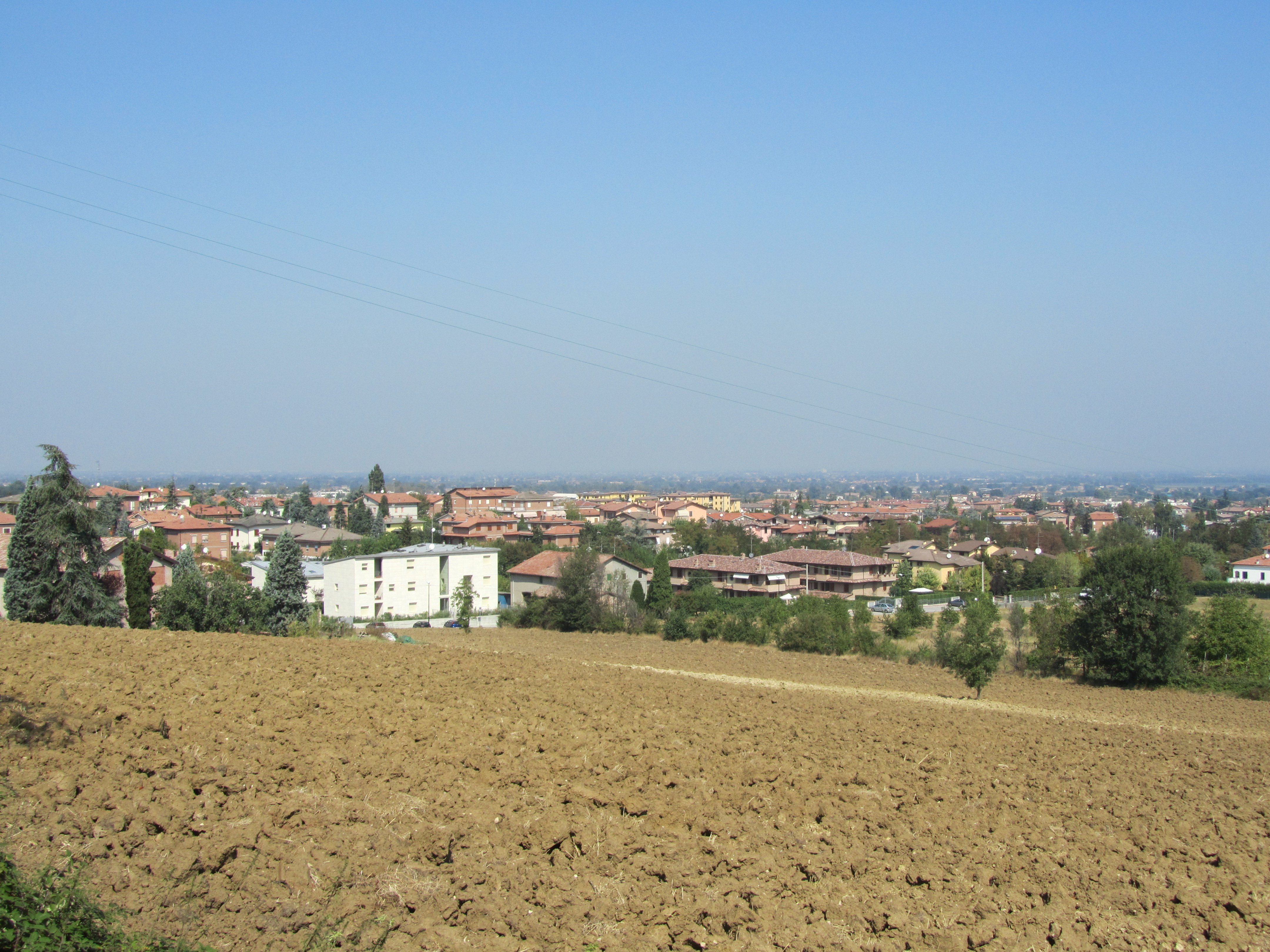 View of Casalgrande, province of Reggio Emilia.